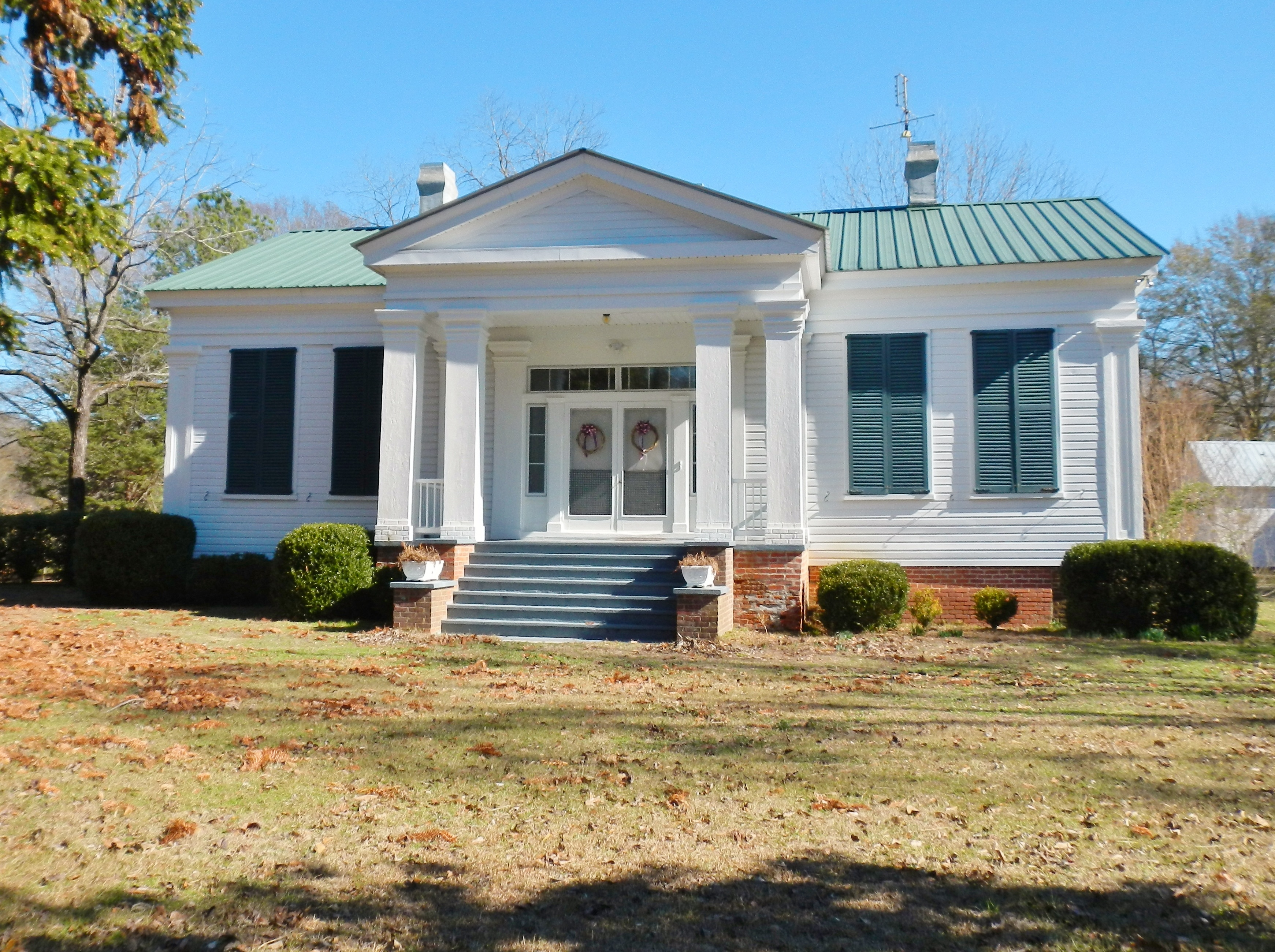 This is a photograph of the James Spullock Williamson House (aka "Merry Oaks Farm") located in Sandy Ridge, Alabama. It is a Greek-revival mansion built in 1850.